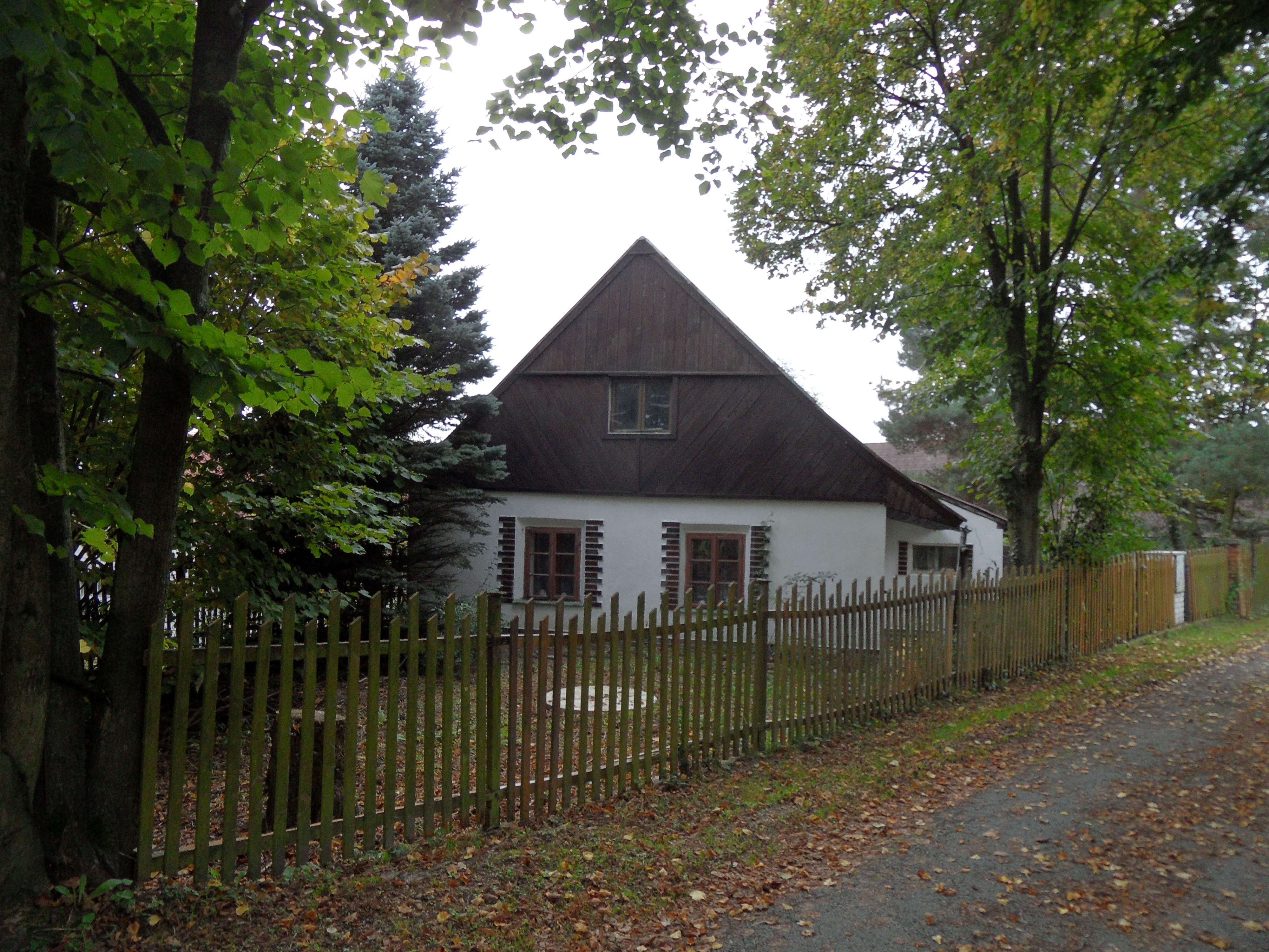 Polipsy A. Folk Architecture, Kutná Hora District, the Czech Republic.